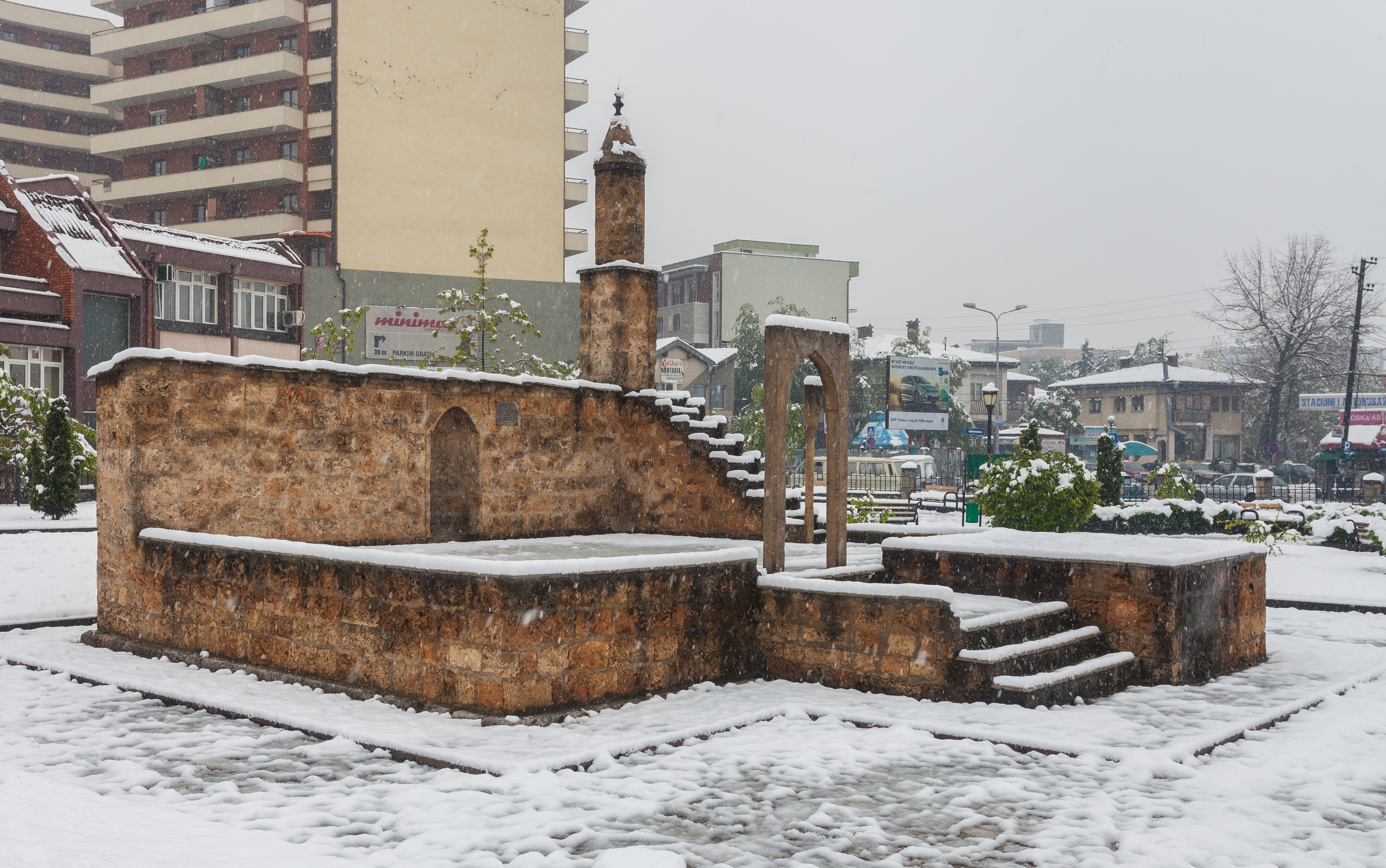 Monument in Prizren, Kosovo